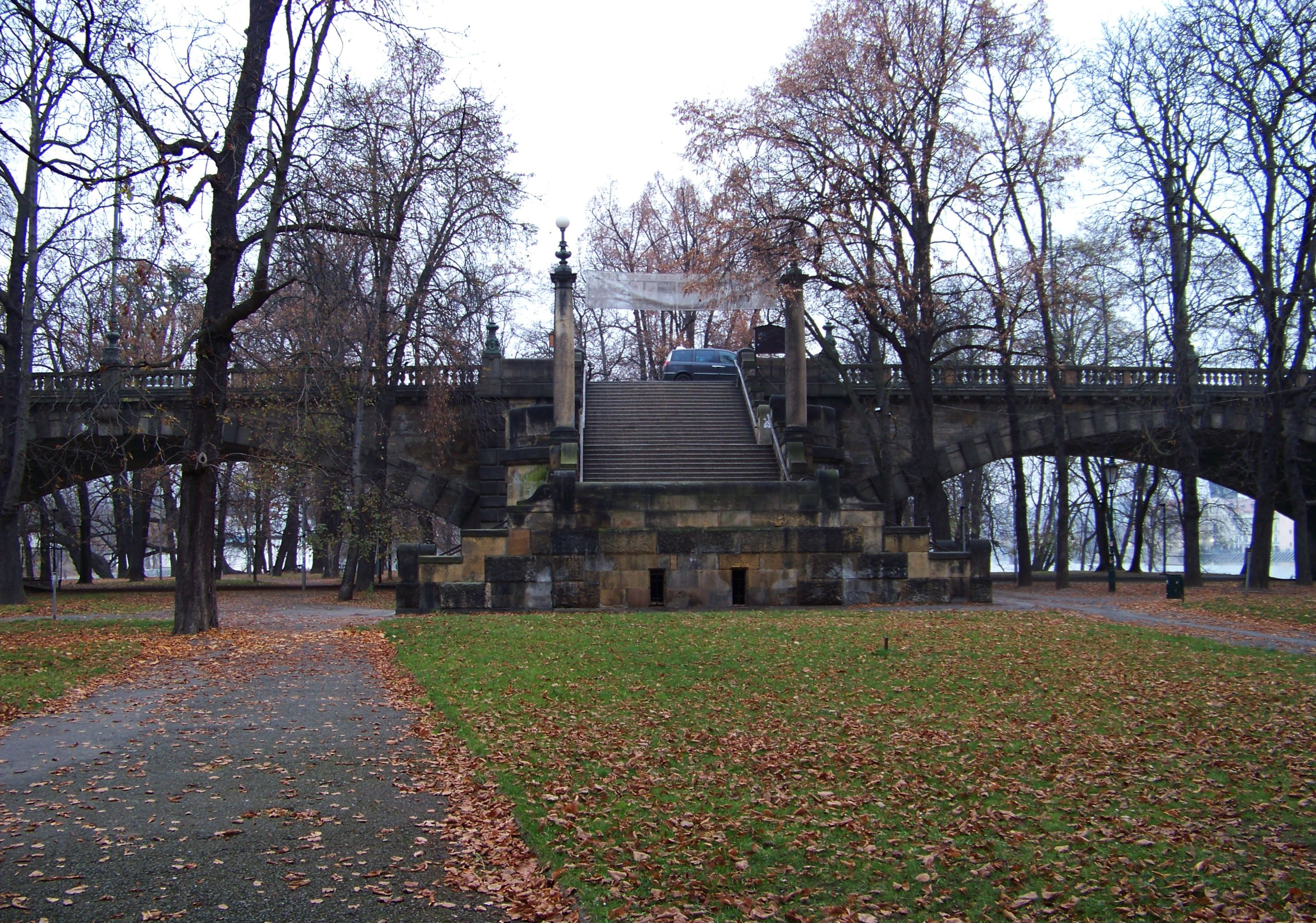 Prague-Old Town, the Czech Republic. The island of Střelecký ostrov, a staircase from the Legions Bridge. - OpenStreetMap(Info)